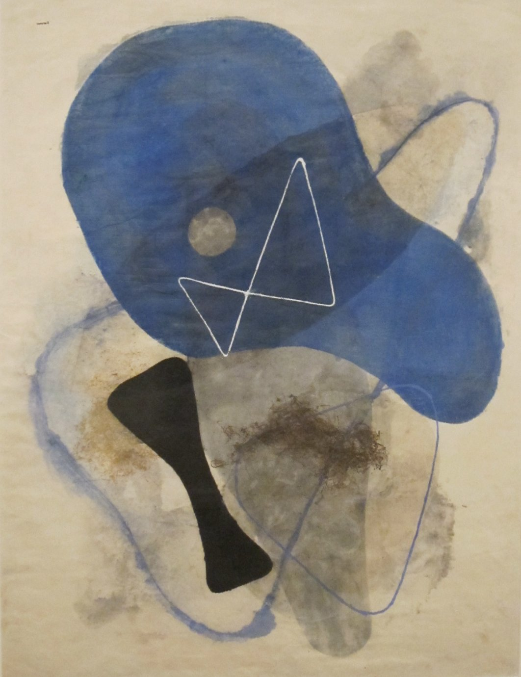 Poem No. 19, woodblock print by Kōshirō Onchi, 1950, Honolulu Museum of Art